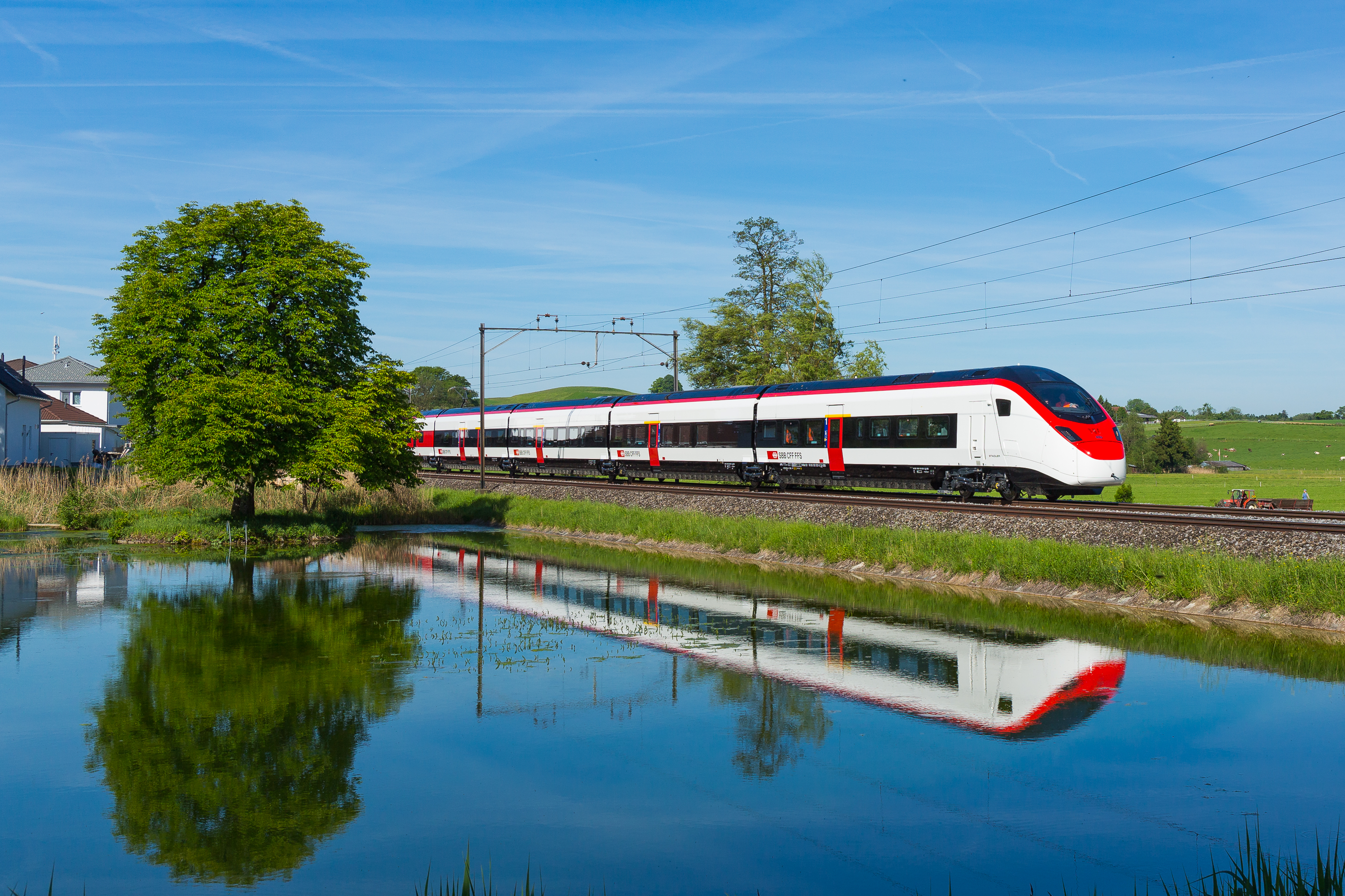 EC250 "Giruno" on test run between Erlen and Romanshorn